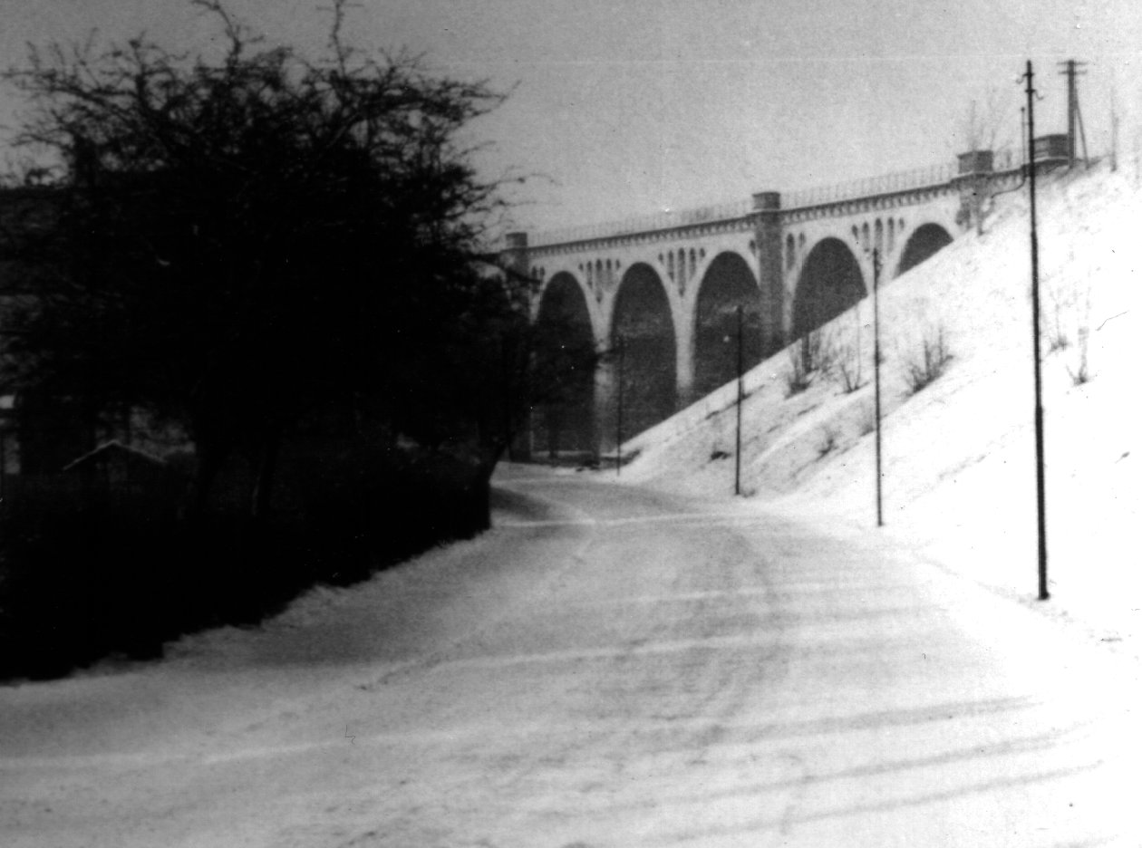 Viadukt of the railway course Arnstadt-Erfurt in Stadtilm/Germany, build in 1891-1893, picture taken around 1960 source: own scan, family photo album :)